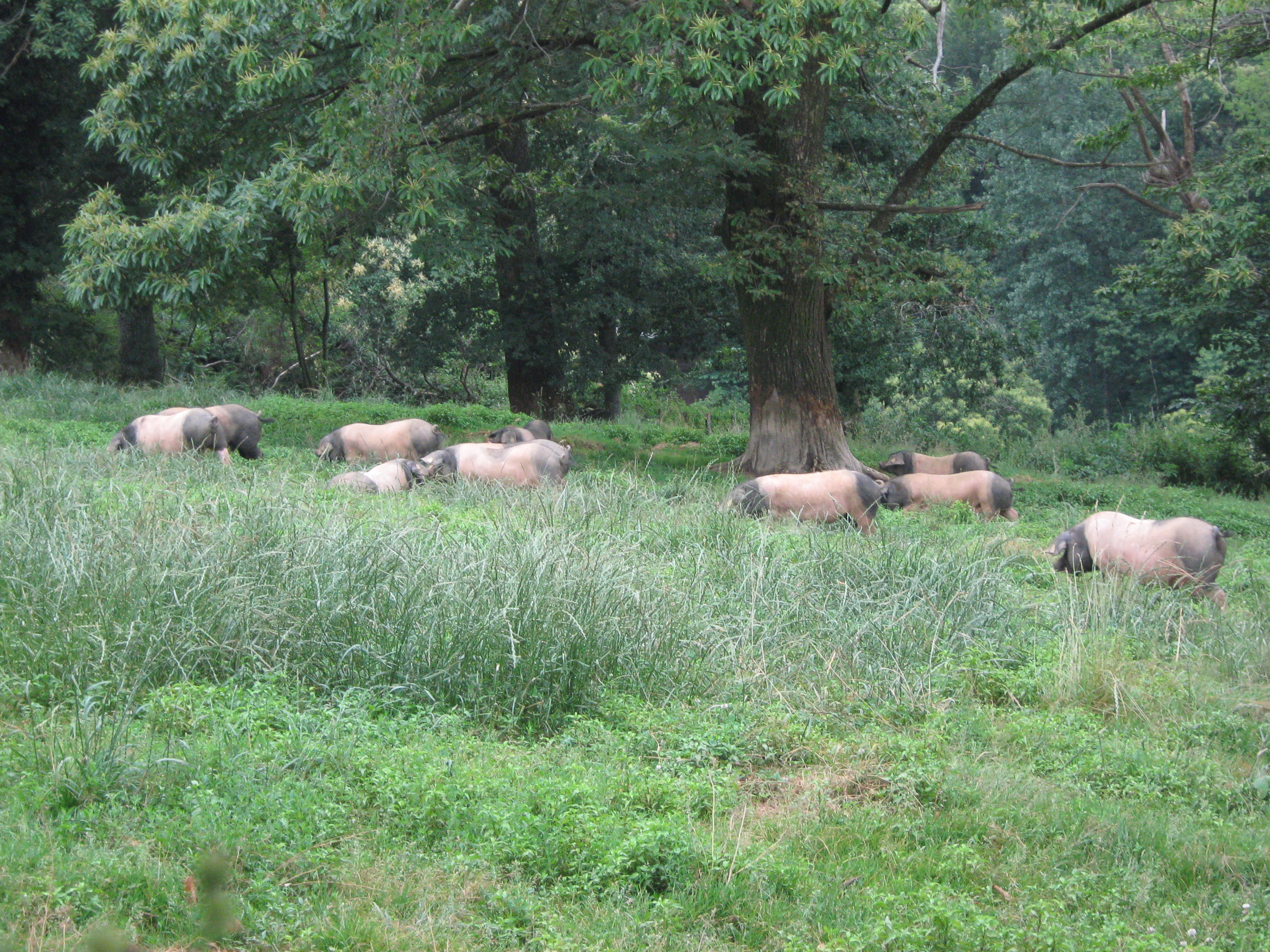 A basque pigs farm in the Aldudes Valley, at Urepel